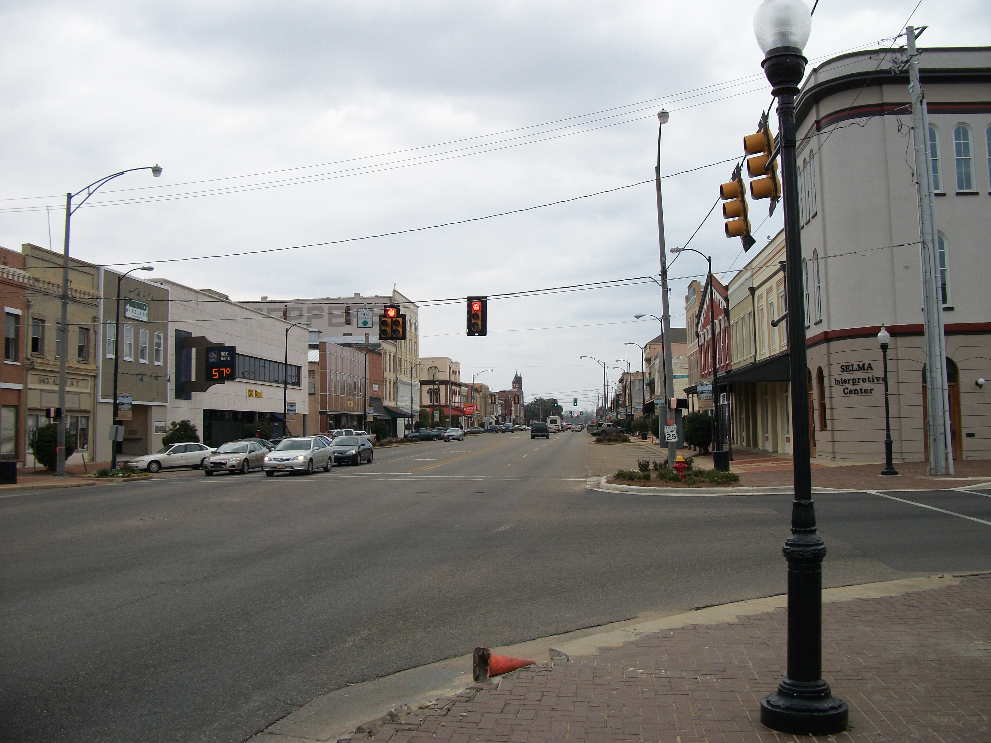 Broad Street at Water Avenue, Foot of Edmund Pettus Bridge, Selma, Alabama